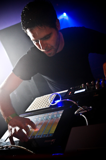 Gui Boratto performing at Ten Days Off 2008, Ghent, Belgium JazzMutant Lemuer monome CME Bitstream X